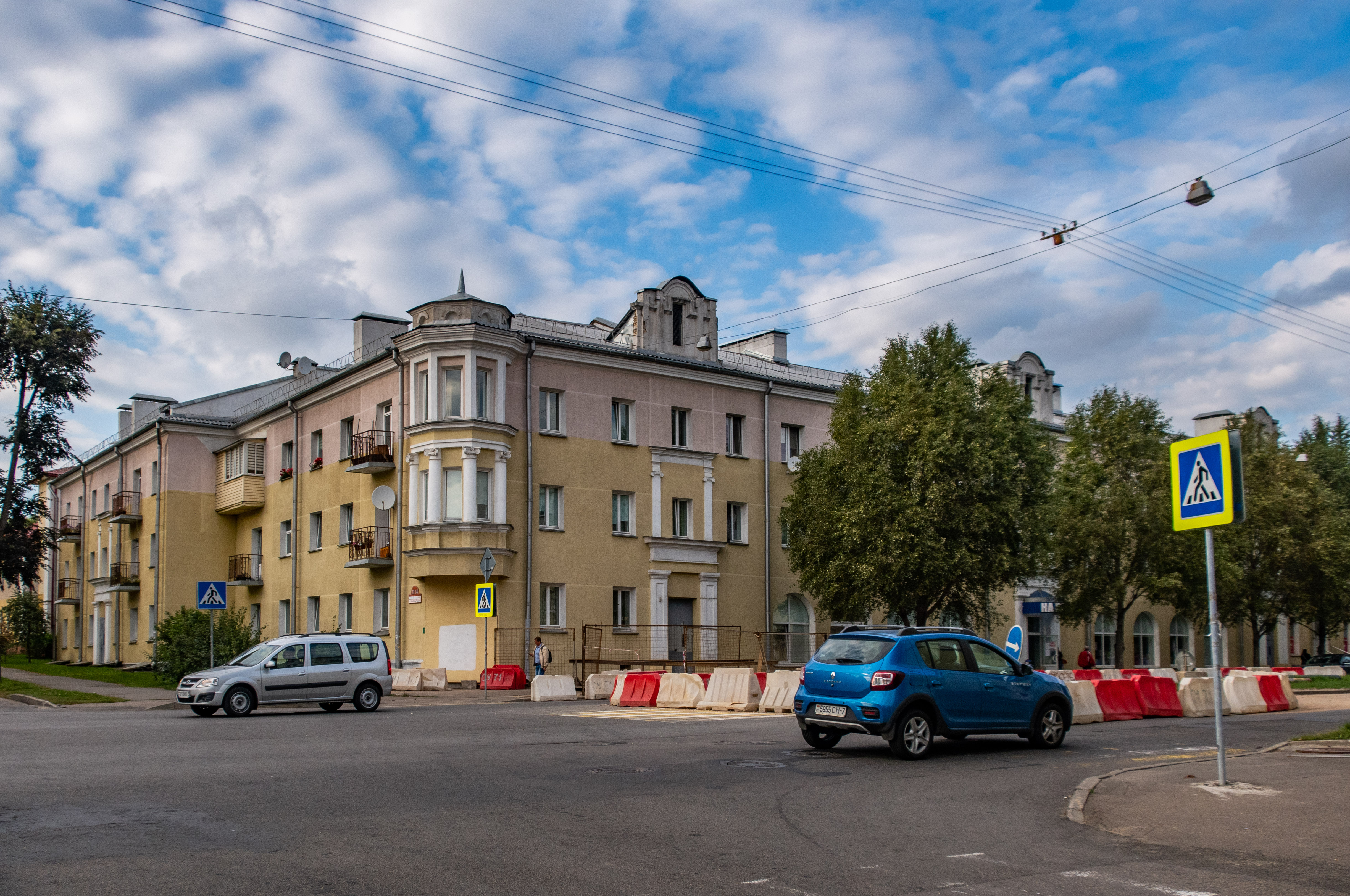 Alieha Kašavoha street. Minsk, Belarus